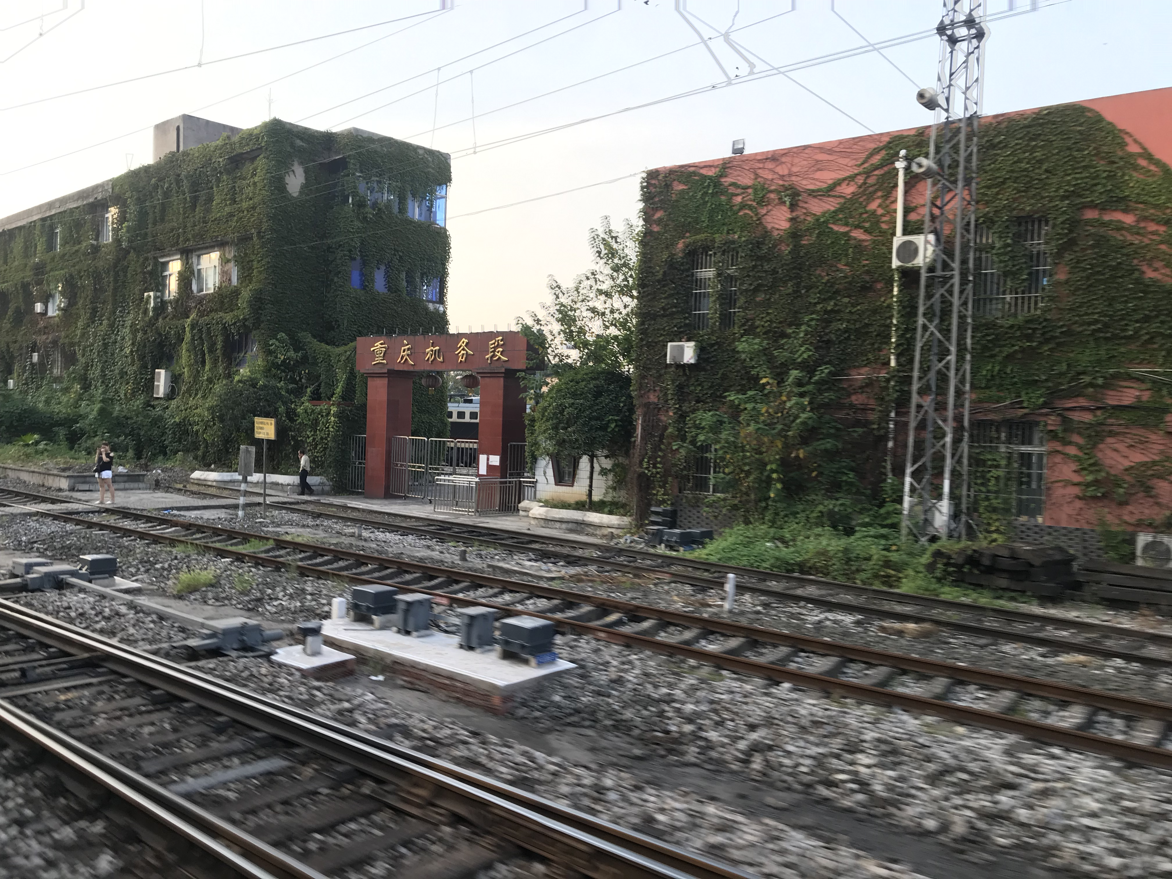 201908 Gate of Chongqing Locomotive Depot at Chongqingnan Station